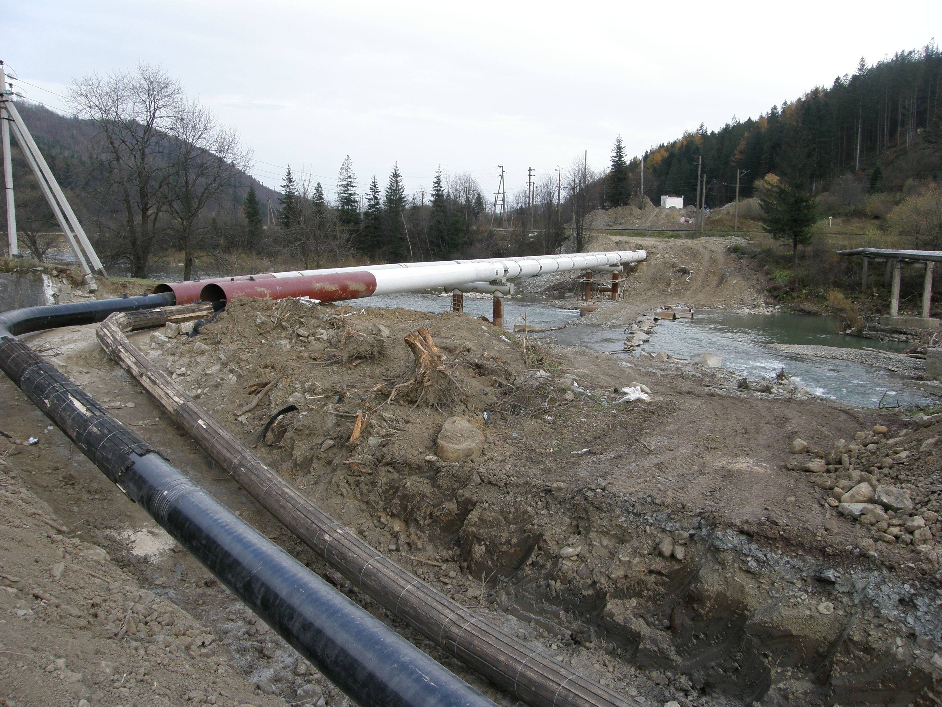 Building Pipeline near Skole